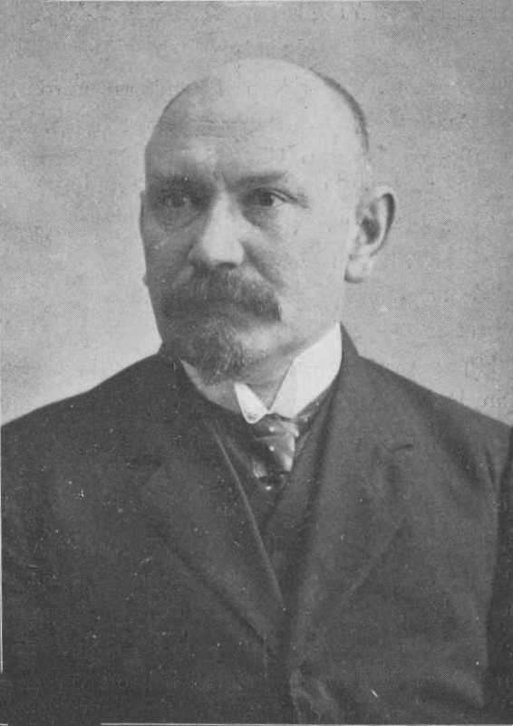 name W. H. VLIEGEN.. political affiliationSocial Democratic Workers' Party